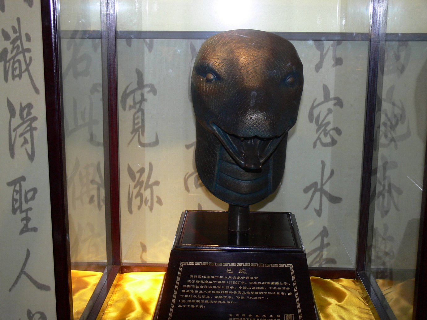 Bronze snake head model at Old Summer Palace 圆明园十二生肖蛇首铜像模型